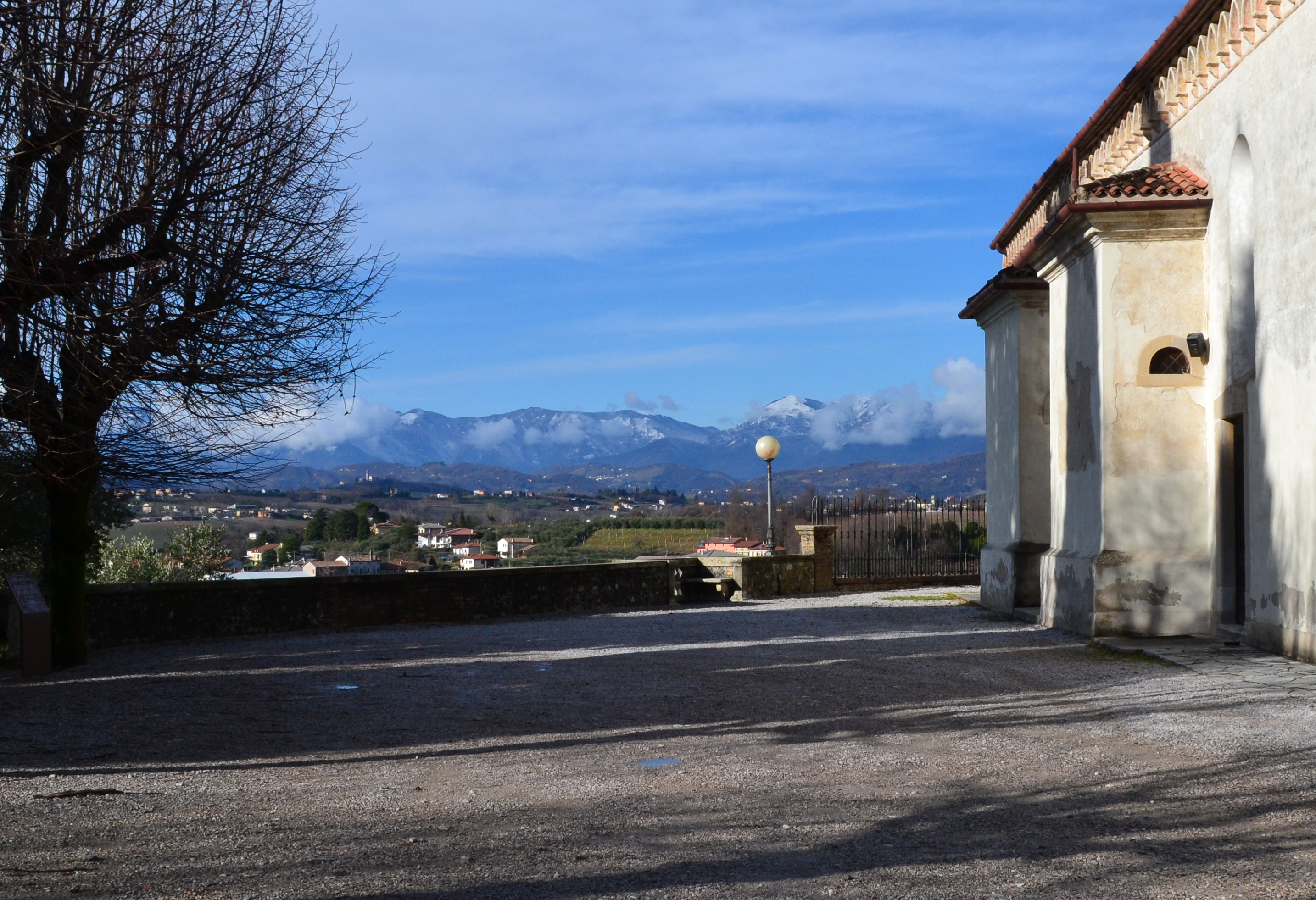 Panoramica dal piazzale della chiesa monumentale di Castello Roganzuolo (foto scattata da Paolo Steffan il 16/12/2017).